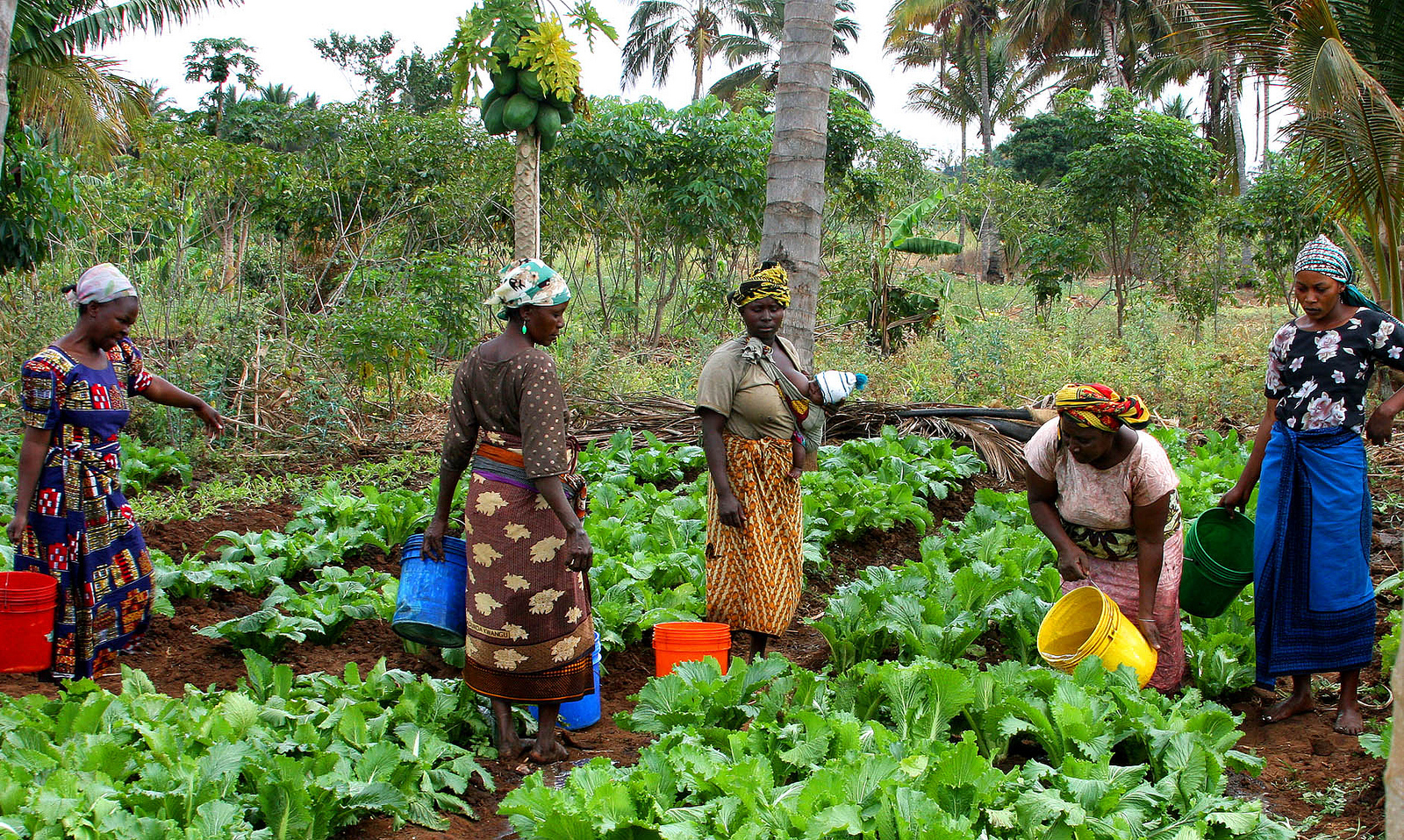 The twelve members of the Wanawake Kwanza (Women First) growers association in Maza village, Morogoro, Tanzania, have received Feed the Future support through USAID to boost their incomes and improve nutrition in the village. After only two months of growing vegetables on a single acre plot, these women have saved nearly $500. Based on their success, Maza village authorities have made an additional 1.5 acres available to the group and other women in the village are now organizing themselves into similar groups. USAID worked as a catalyst getting them started by providing initial training, seeds and a treadle pump for irrigation. Now that they are up and running, USAID will help the women to register their association, provide technical assistance and additional training and develop business plans so that they can make their efforts sustainable for the future. (USAID/Tanzania)